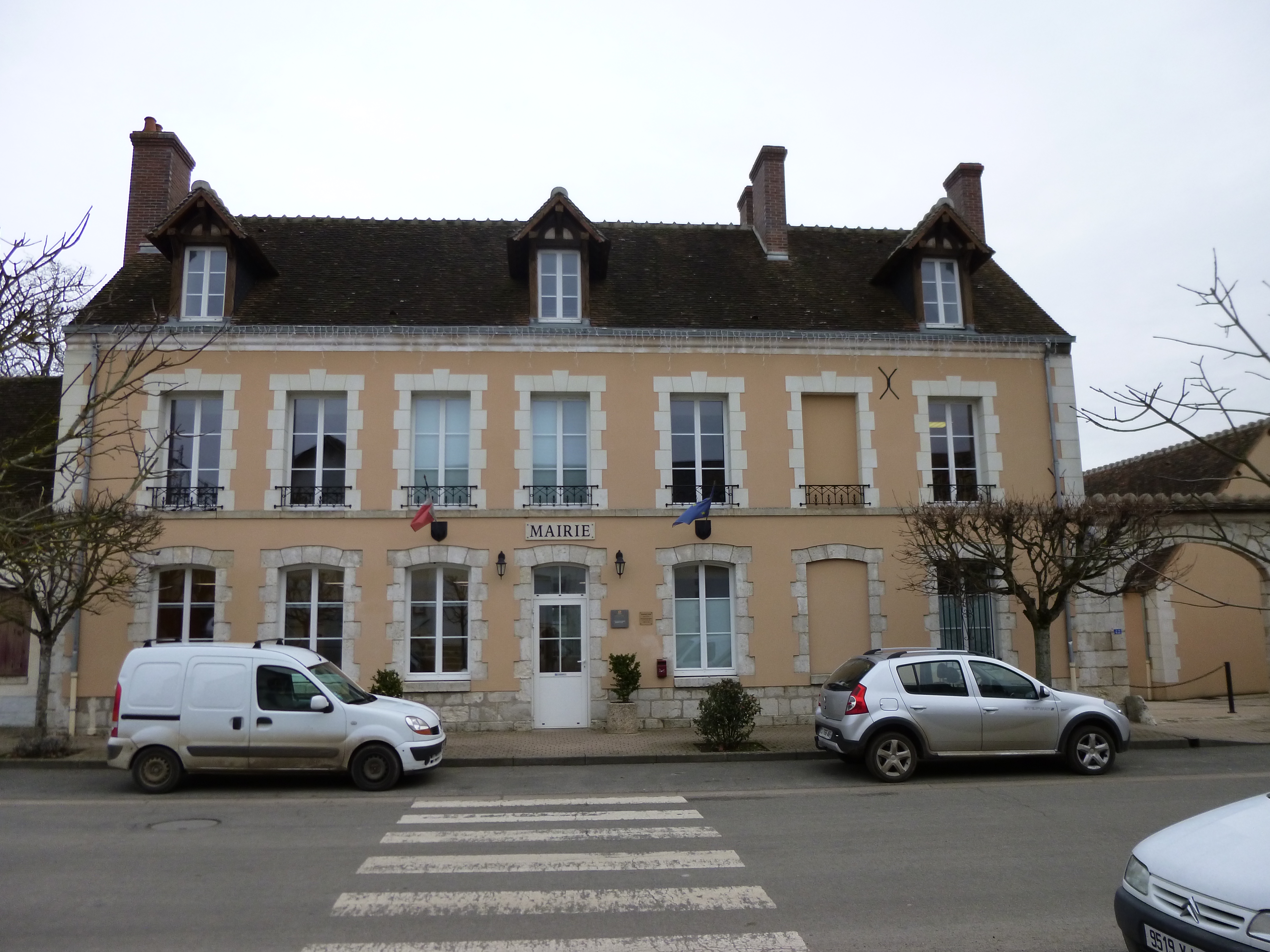 Saint-Maurice-sur-Aveyron, Loiret, région Centre, France. The town hall, moved here in or around 2008 (it was previously located at the south end of the rue des Pommiers).